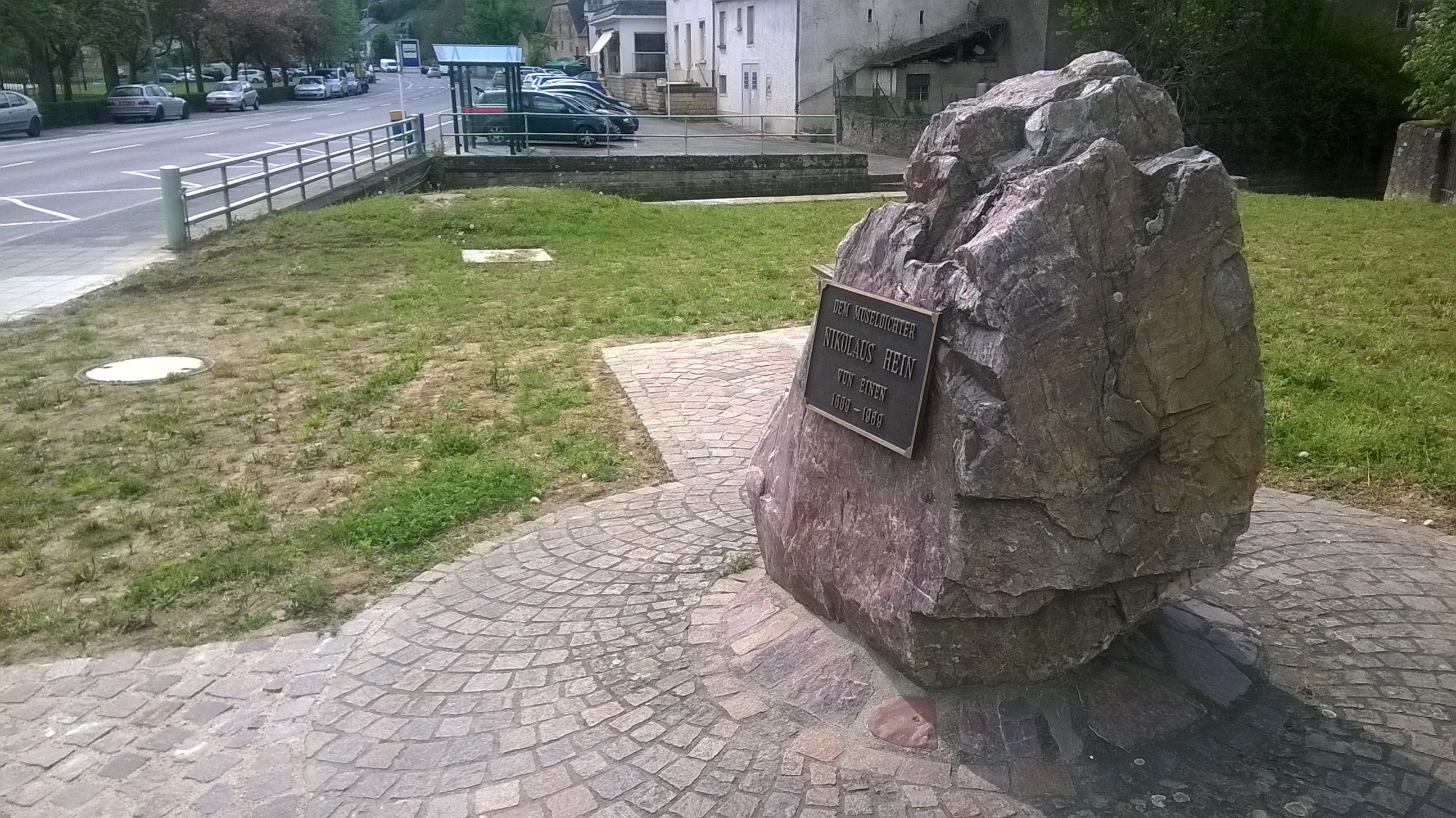 Memorial in Ehnen, Luxembourg, for Nikolaus Hein